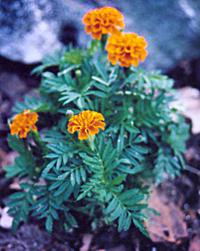 Tagetes sp. --Franz Xaver 09:30, 19 July 2005 (UTC) ---- Orange marigolds. I took this picture in mid-September 2002 using a Nikon FM2 with a Tamron 35-70mm zoom lens and Kodak Max Versatility film. I release this picture into the public domain; you may not claim you took this photo yourself, but you do not need my permission to use it in any other way for any reason. --KQ 16:00 Aug 19, 2002 (PDT)